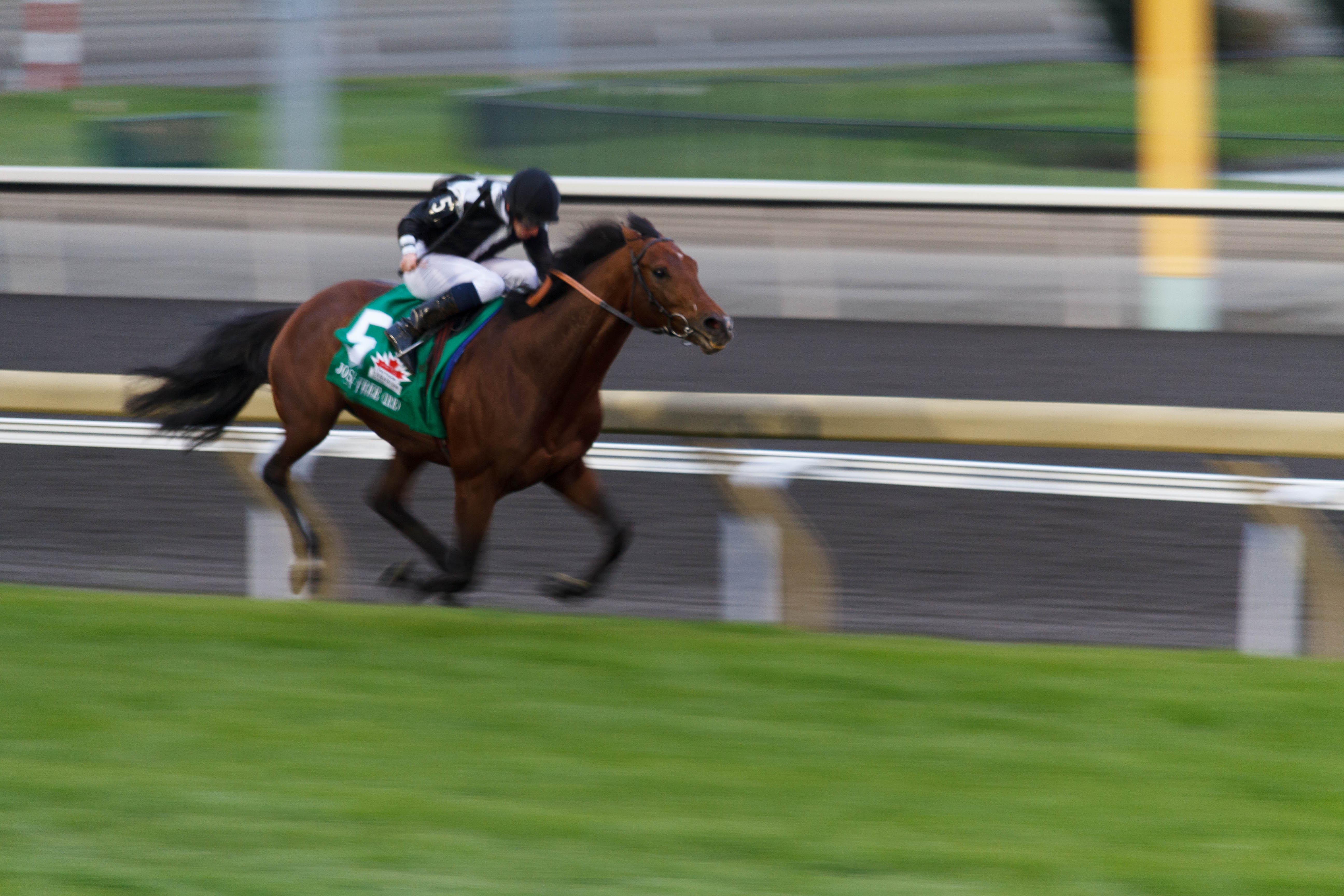 Joshua Tree with jockey Ryan Moore at the G1 Pattison Canadian International Stakes at Woodbine on 27 October 2013.